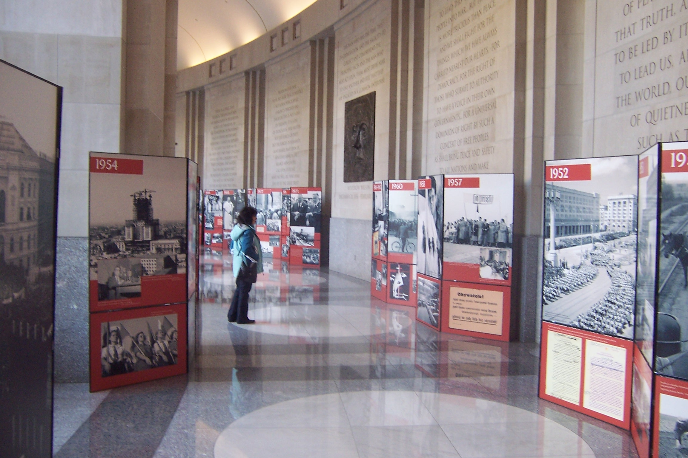 The exhibition Polish People's Republic—So Far Away and So Close By in the Woodrow Wilson Center's Memorial Hallway